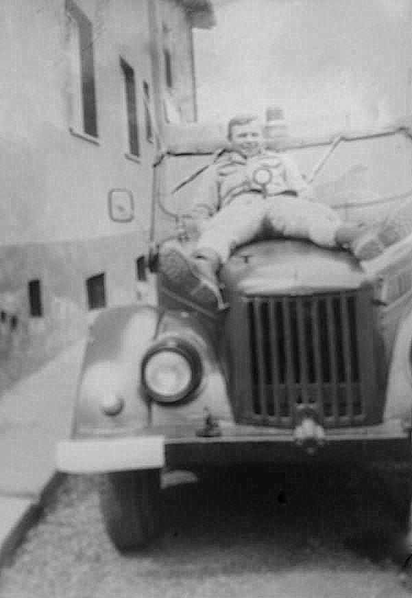 WOP post in Gościce